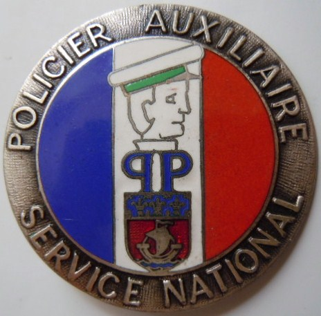 Insigne of the French auxiliary police.